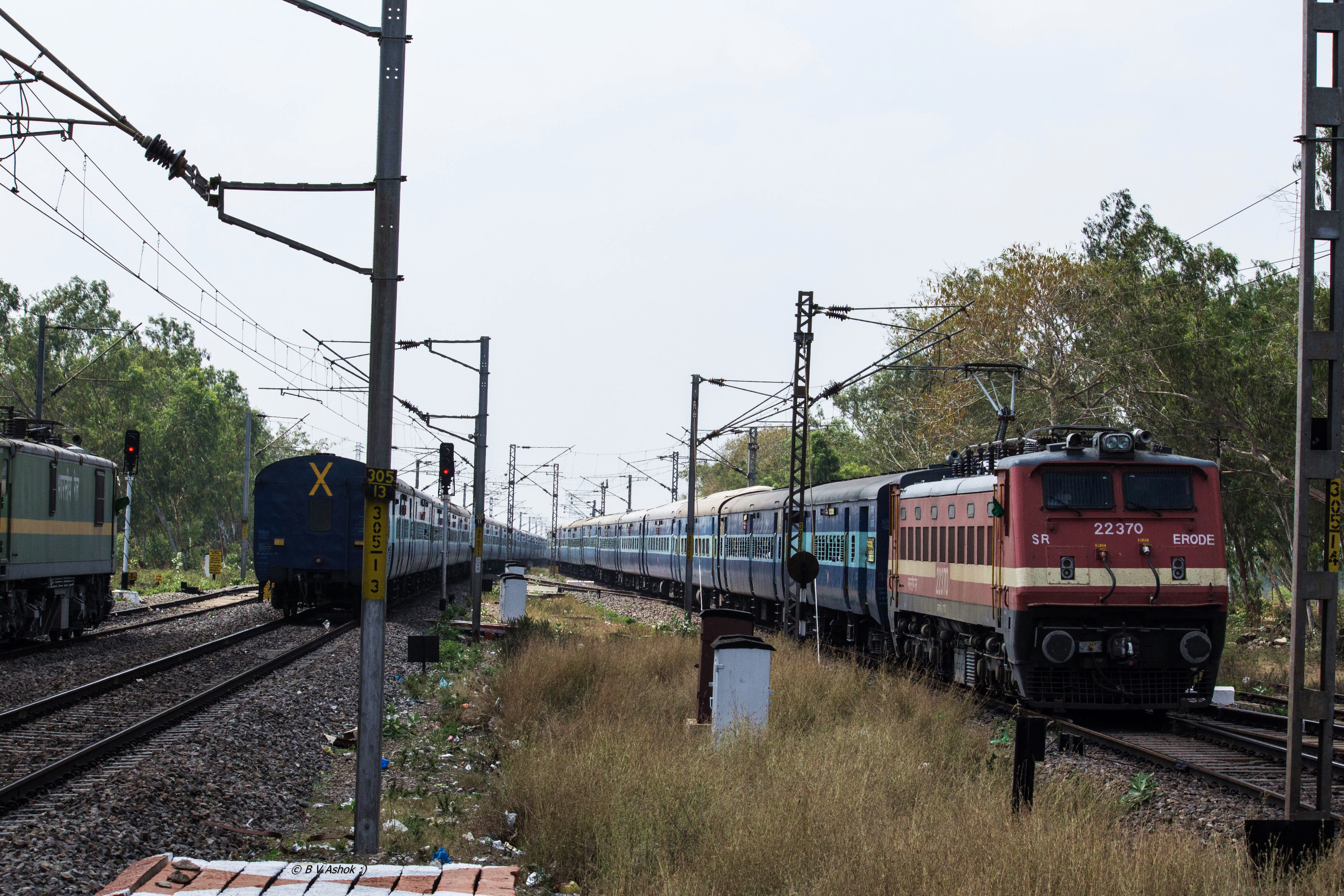 ED WAP-4 22370 cruising through Ammanabrolu with 12643 Trivandrum Central - Hazarat Nizamuddin Swarna Jayanthi Superfast Express...